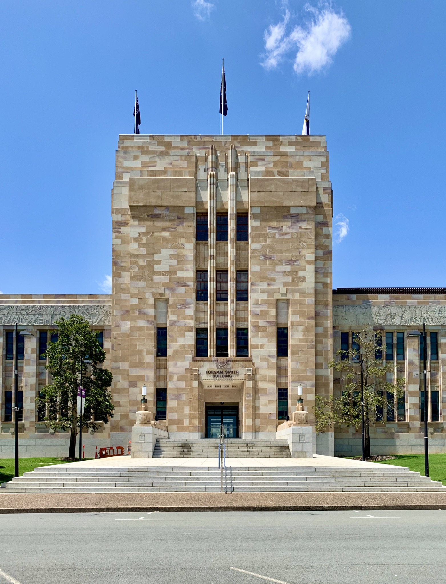 Forgan Smith Building, UQ St Lucia Campus, Brisbane